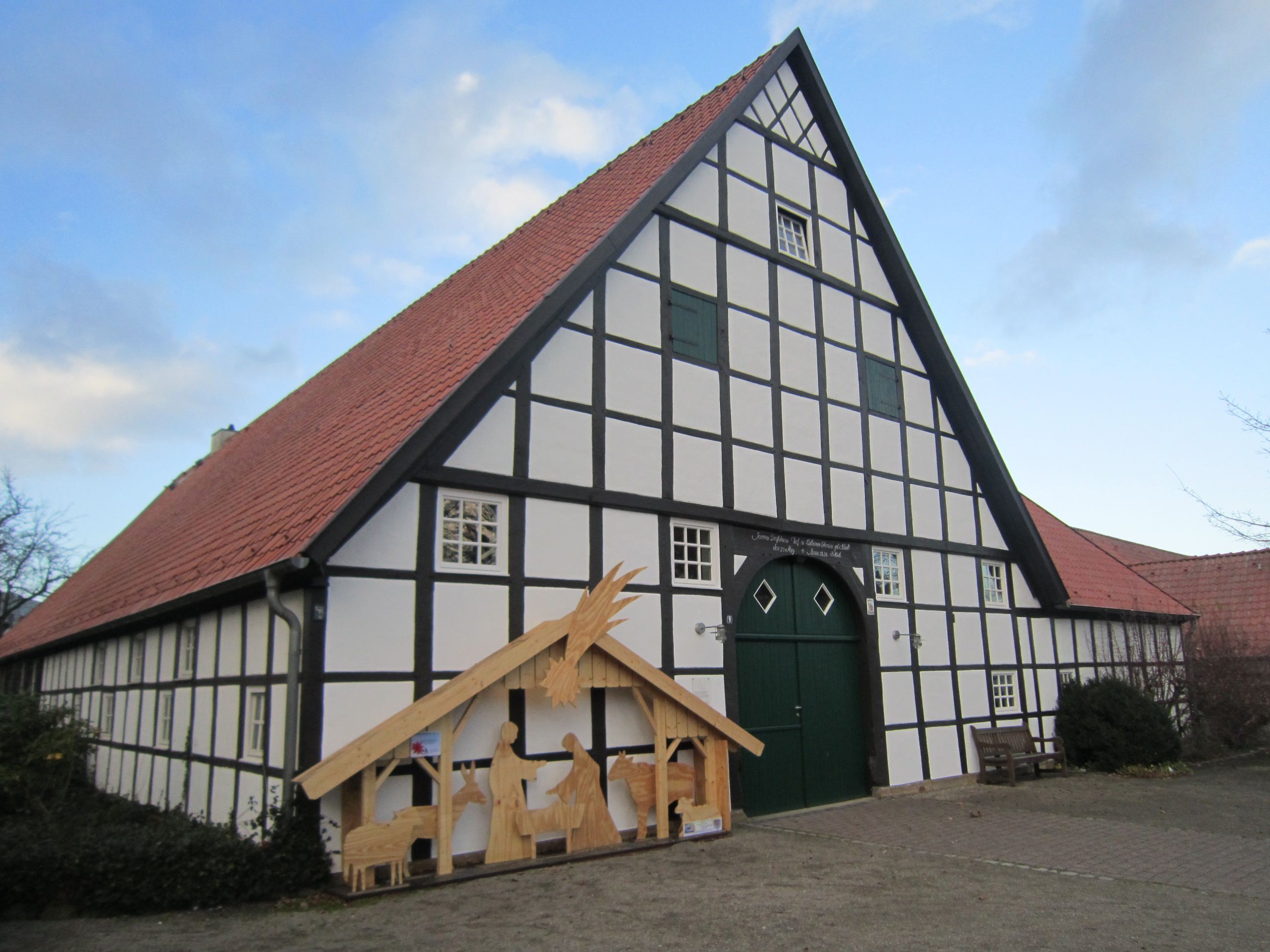 Schultenhof - station of the "Walk of Nativity Scenes" in Mettingen, Kreis Steinfurt